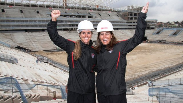 Educational and Cultural Affairs (ECA) of the U.S. Department of State